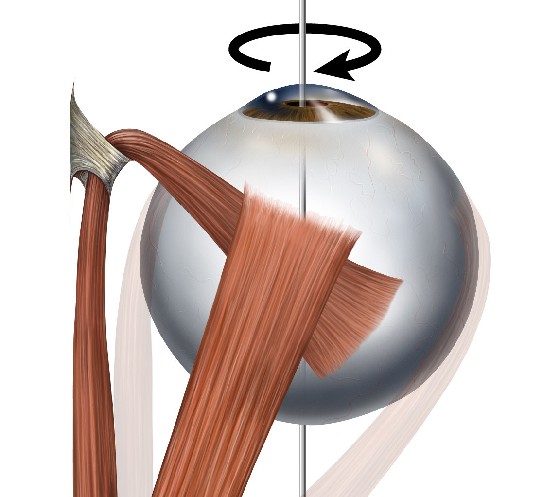 Eye movements medial rotation